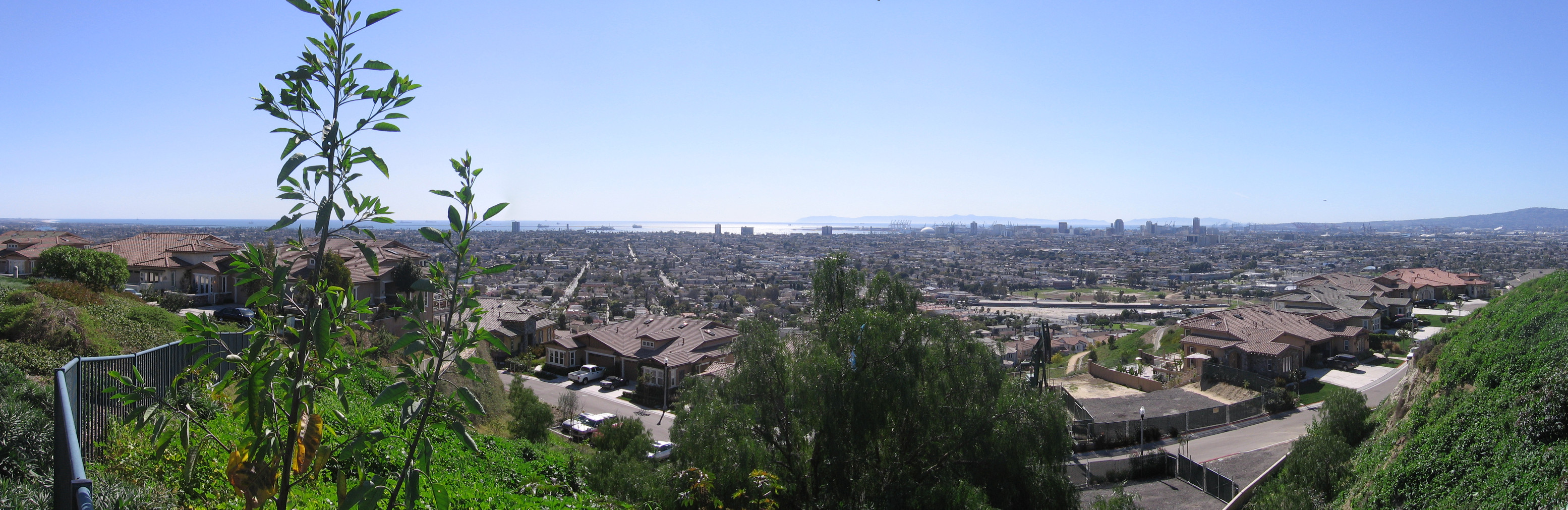 Panoramic view of Long Beach, California, as seen from Skyline Drive on Signal Hill.